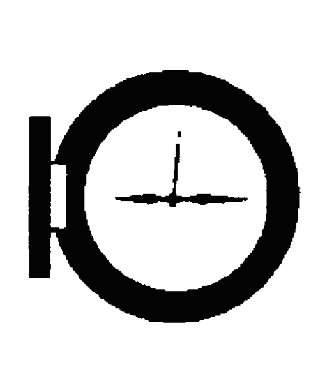 Clock rotated in the picture plane 90 degrees